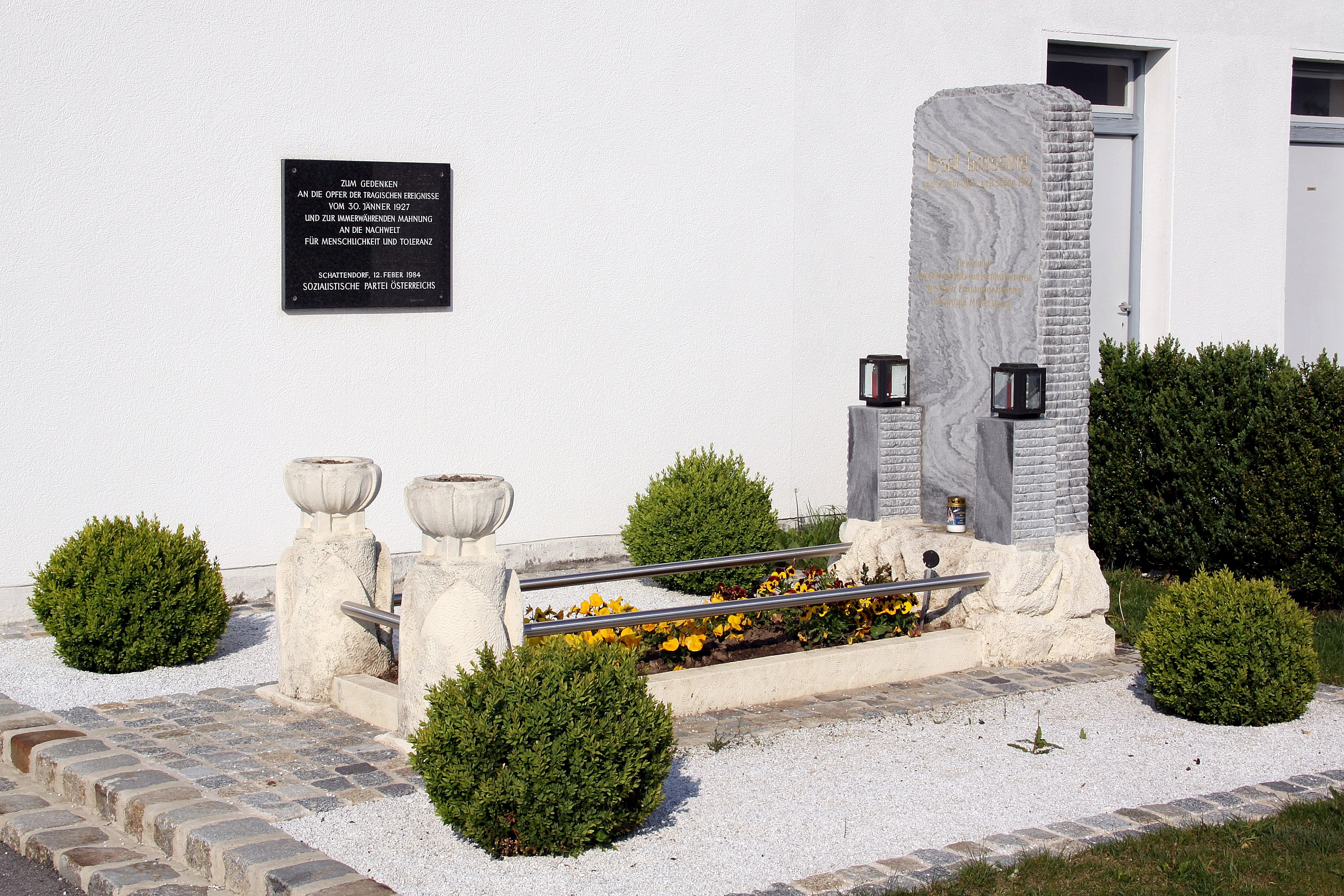 Memorial Josef Grössing - Schattendorf Object location47° 42′ 28.27″ N, 16° 30′ 49.9″ E